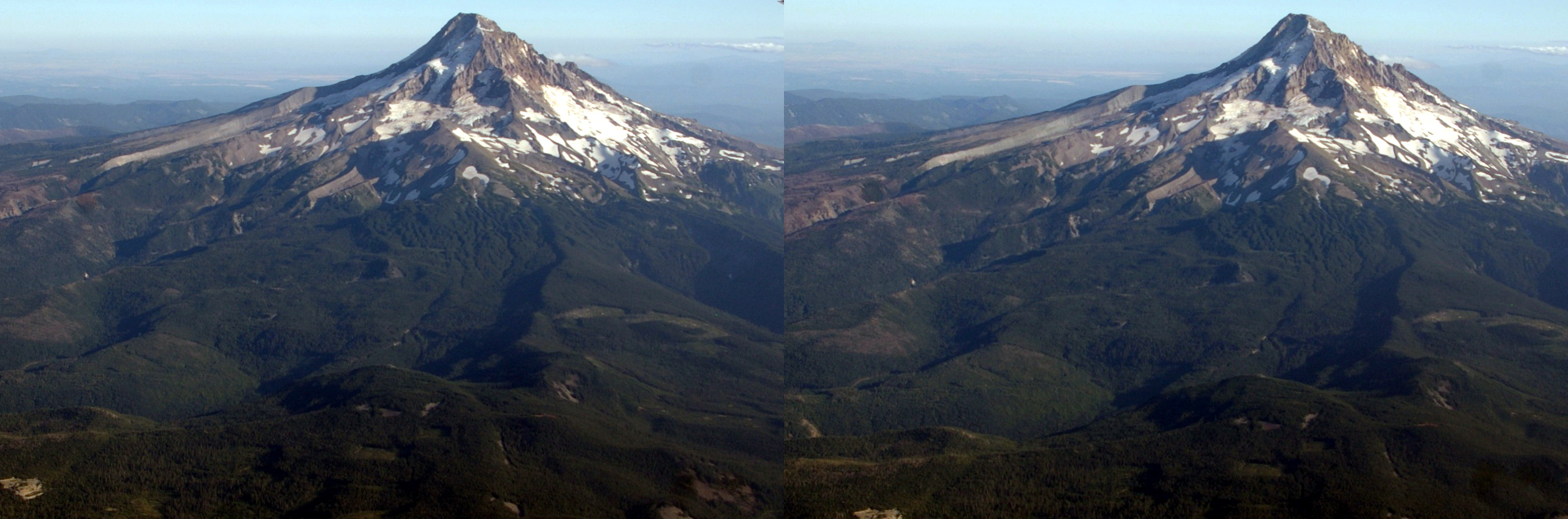 A crosseye stereopair of Mount Hood in Oregon. Taken from an airplane due north of the mountain, estimated image separation is one mile.